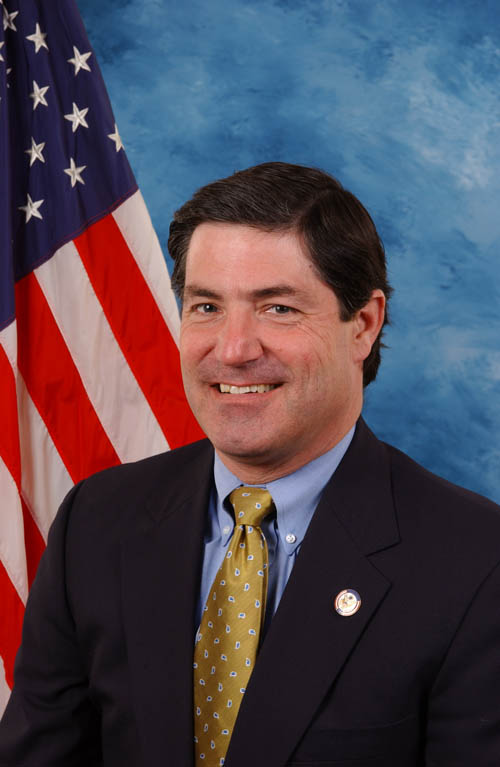 Jim Gerlach's official portrait